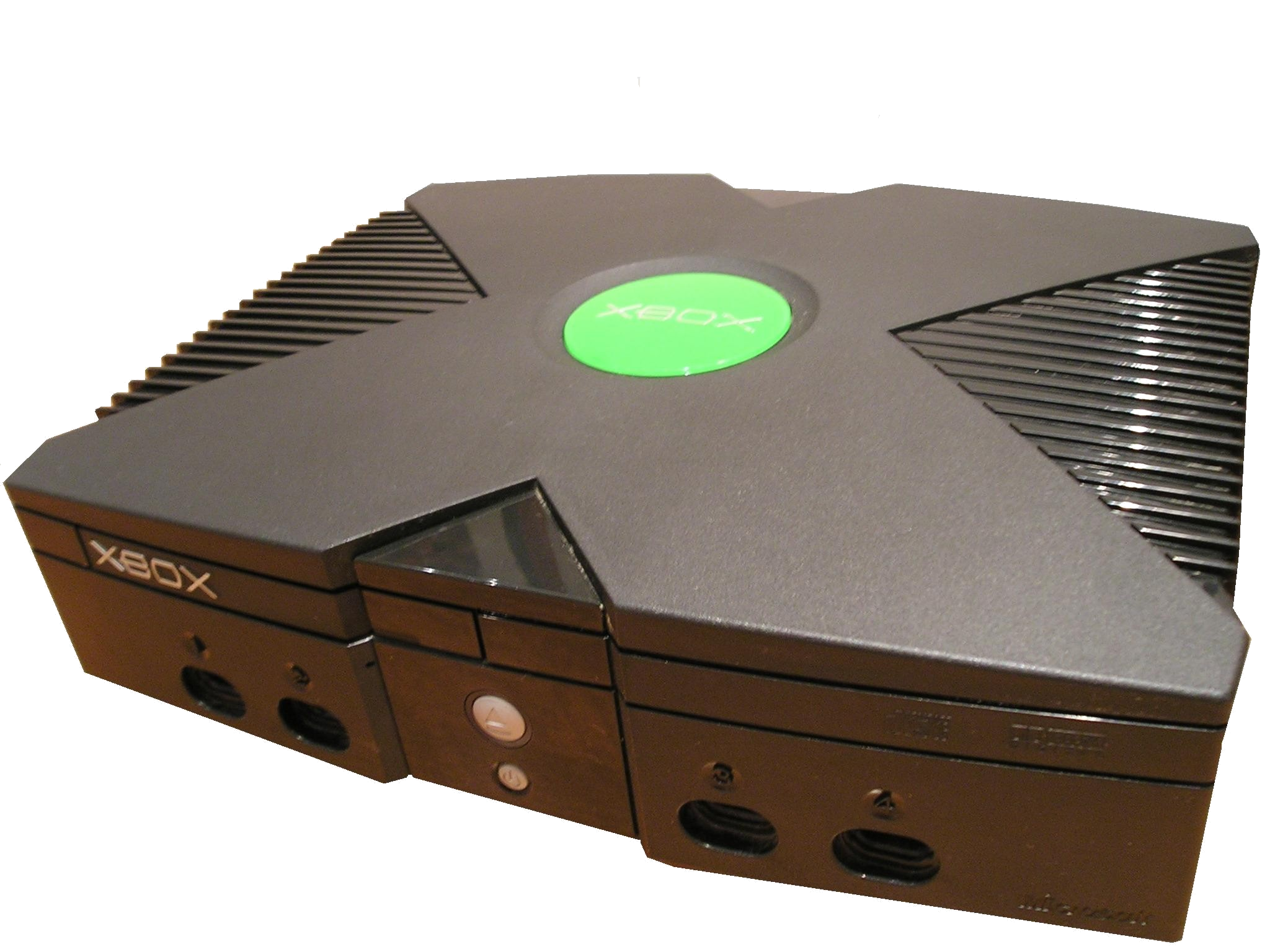 Version of Image:Xbox 1.jpg with transparency added to cut down on jpeg artifacts.